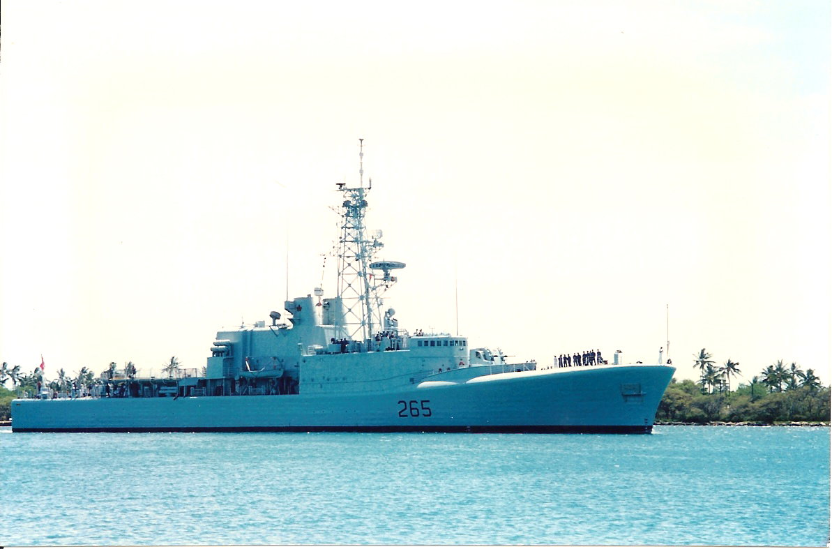 HMCS Annapolis (DDH-265) near Pearl Harbor, Hawaii, United States.